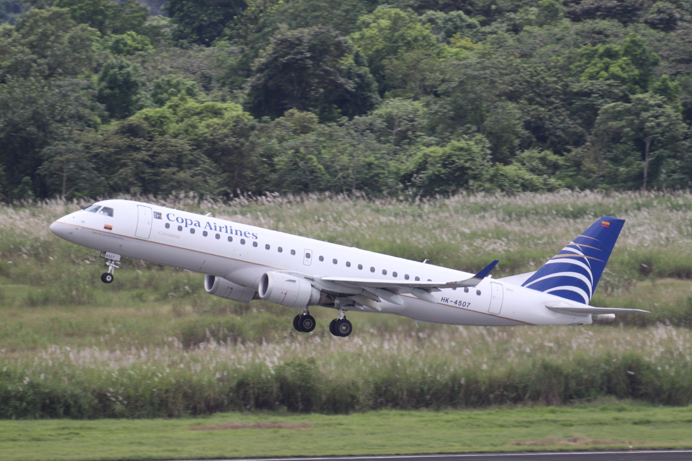 At Panama City Tocumen International